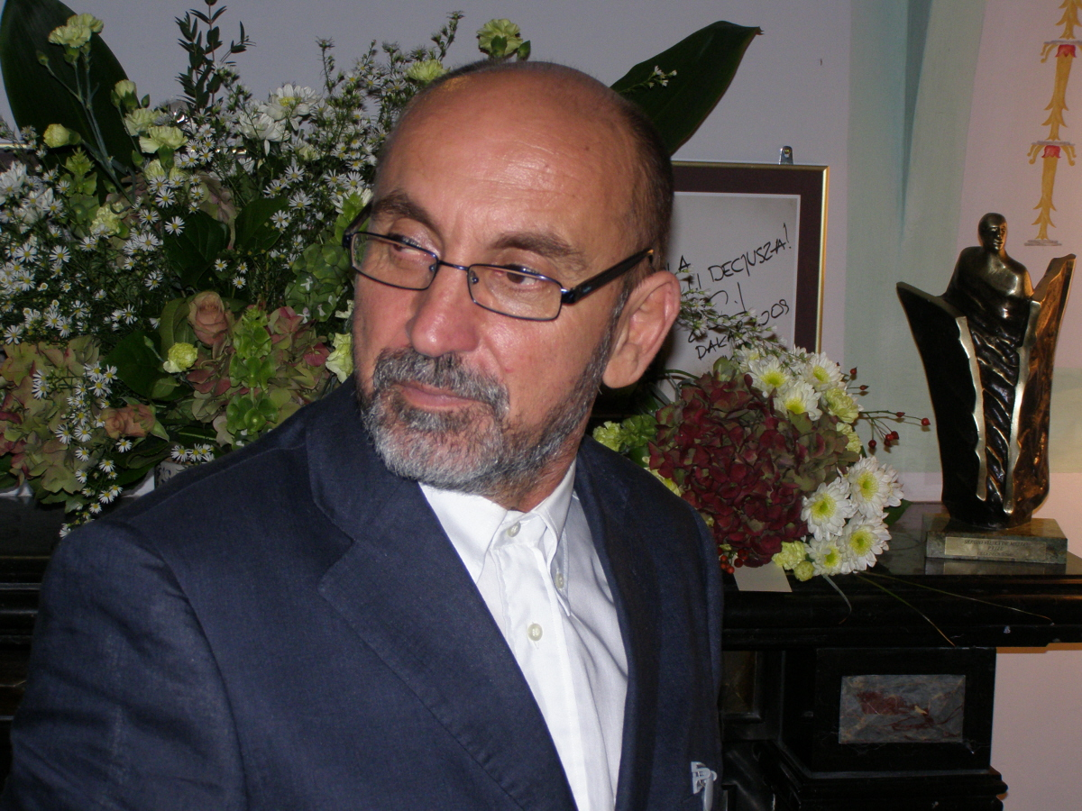 Fatos Lubonja with Sergio Vieira de Mello Prize, Kraków